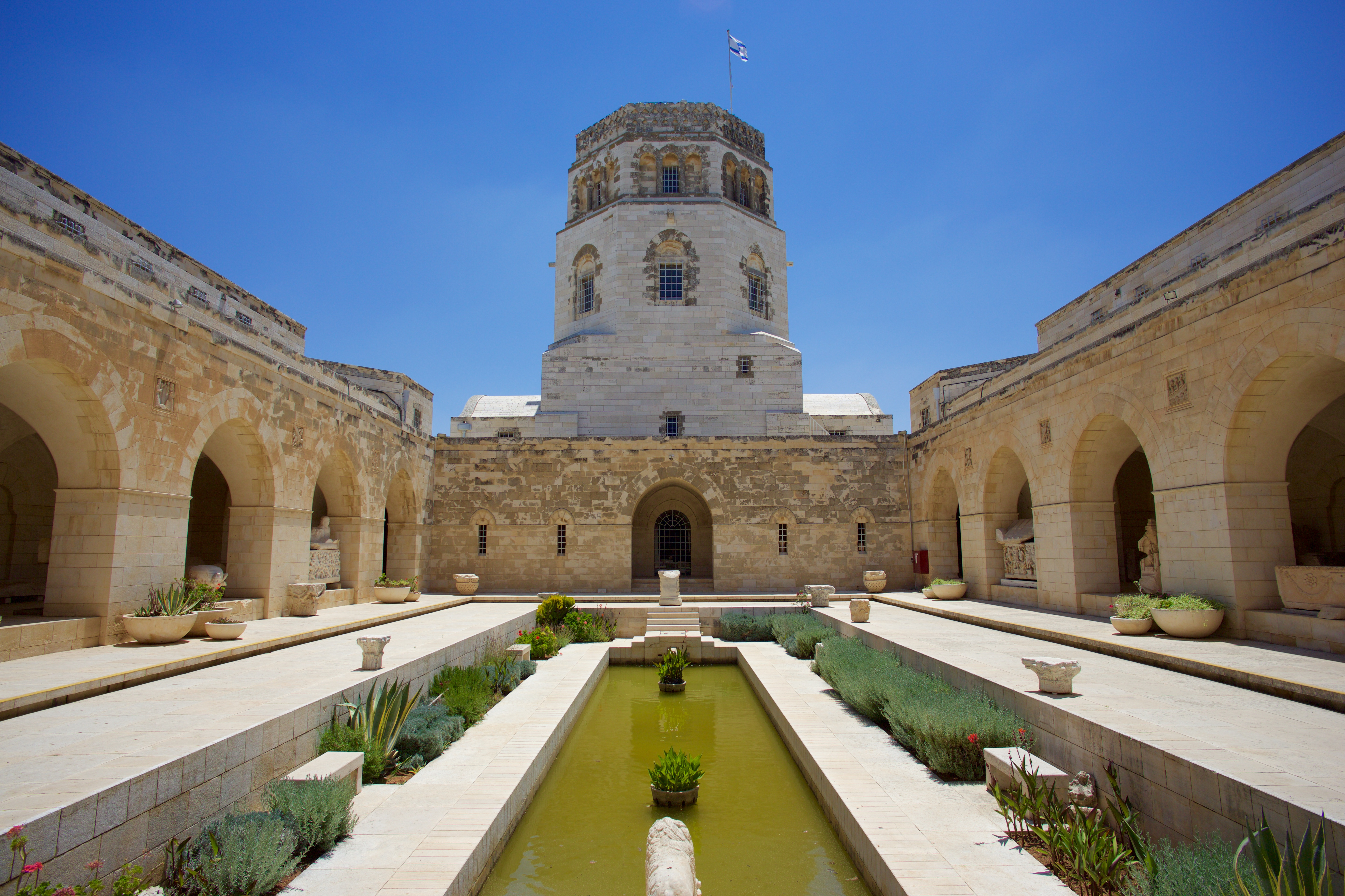 מוזיאון רוקפלר הוא מוזיאון לארכאולוגיה, חלק ממוזיאון ישראל, המכיל פריטים ארכאולוגים חשובים רבים מארץ ישראל. נמצא במזרח ירושלים, מול שער הפרחים. במבנה שוכנים גם משרדי רשות העתיקות. כולל גגות מעוטרים בכיפות ומגדל מתומן המתנשא מעל הכניסה הראשית.